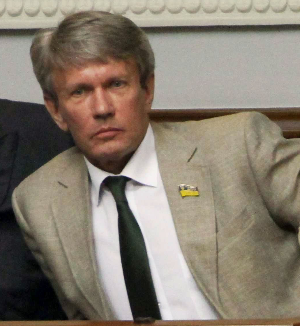 Valeriy Sushkevych, Ukrainian politician, member of the Ukrainian Verkhovna Rada